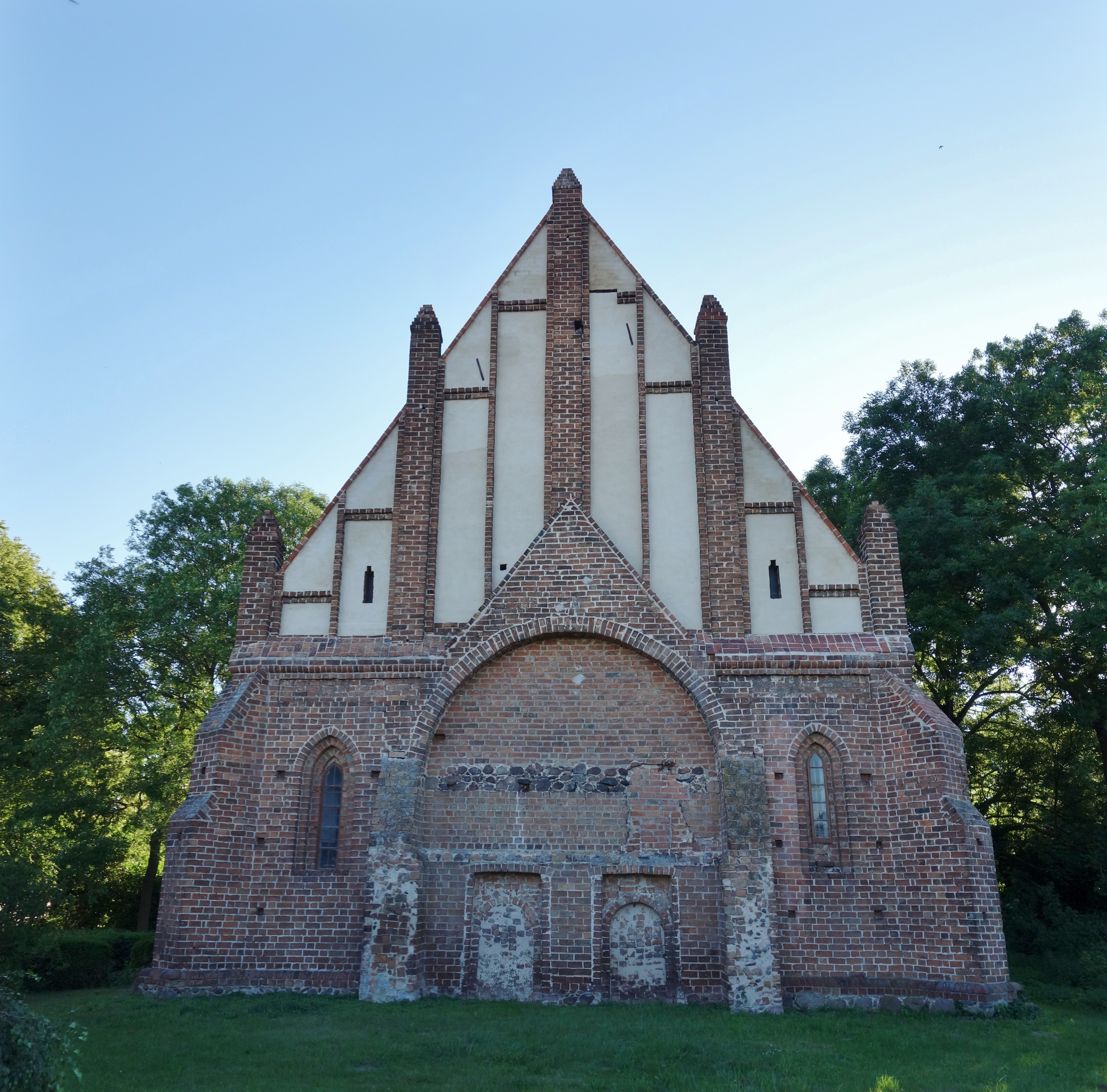 Eastern view of church in Buckow, Nennhausen municipality, Havelland district, Brandenburg state, Germany.